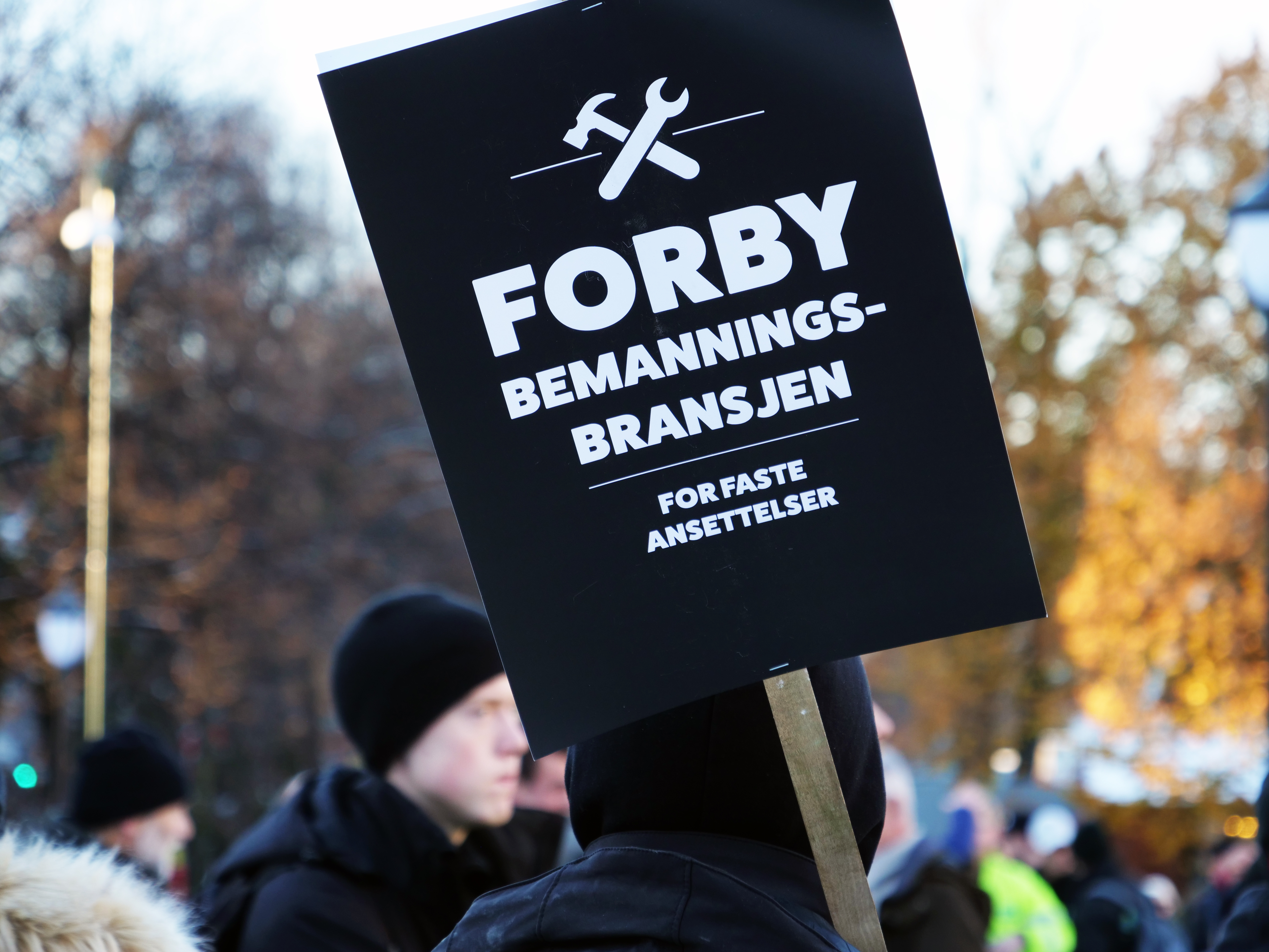 A Norwegian trade unionist with a poster demanding a general ban on private employment agencies.